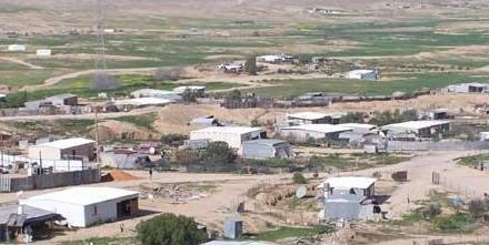 Settlements in Israel